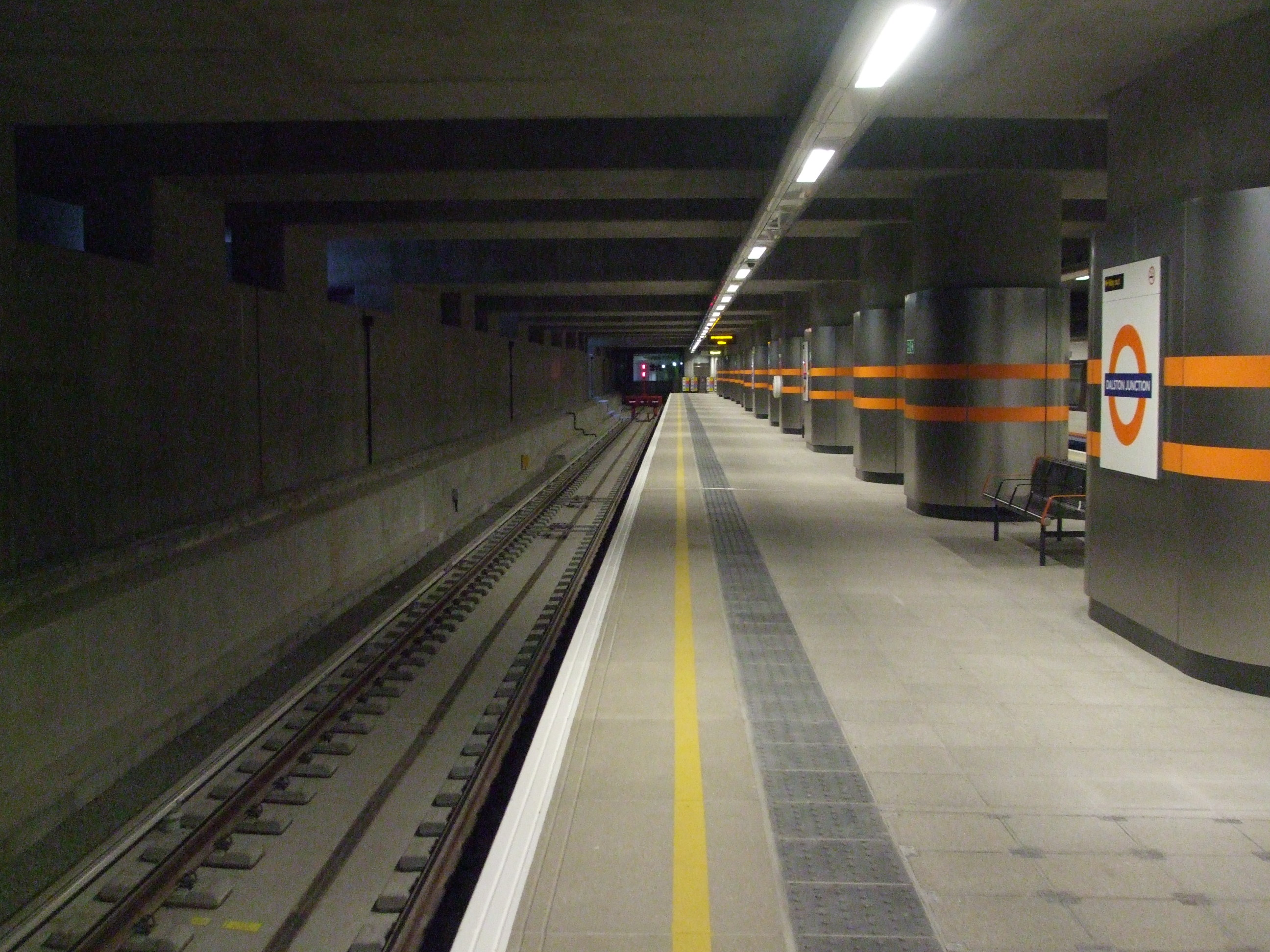 Dalston Junction station platform 1 looking north on day of opening, 27 April 2010; this is intended to be used by trains towards Highbury & Islington from 2011.